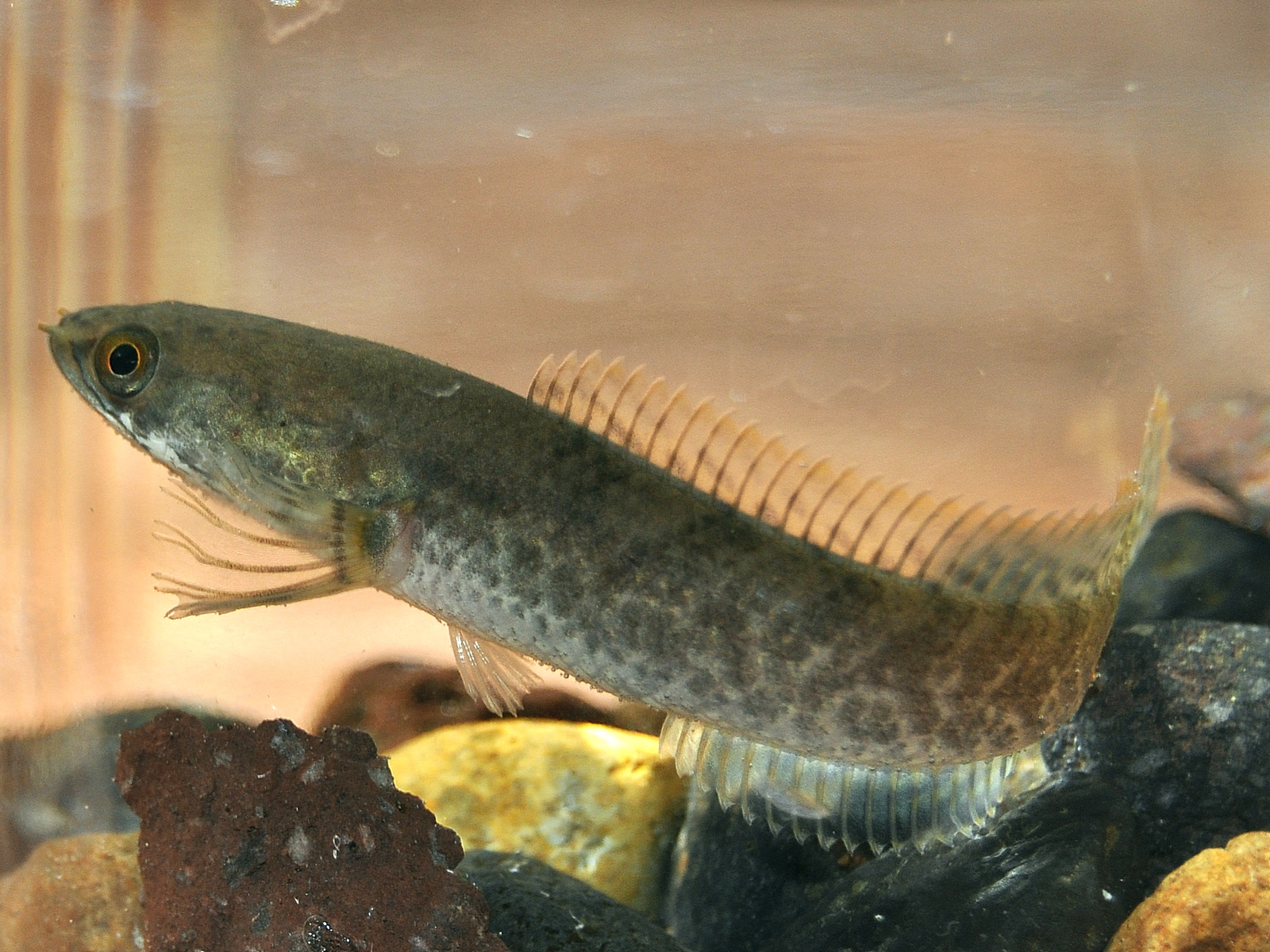 Dwarf snakehead, Channa gachua, 60mm SL. From Karawang, West Java. Left side. Dorsal fin 34, anal 22, pectoral 13, pelvic present.